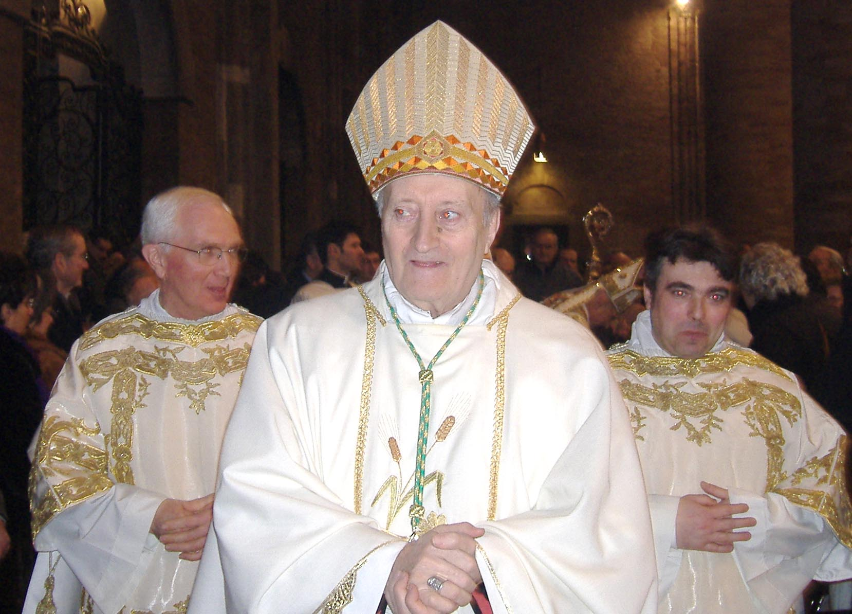 Giuseppe Merisi, Bishop of Lodi, Italy.